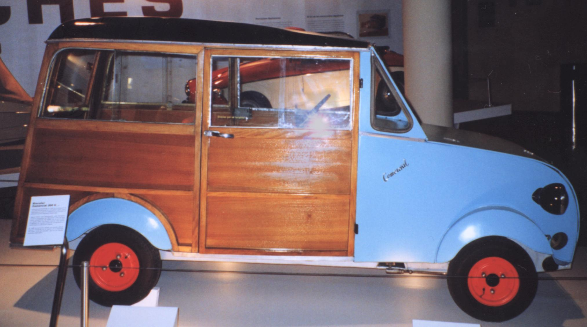 Biscúter Comercial 200 C from a side. A woodie version of the car. Shot in CosmoCaixa, Alcobendas